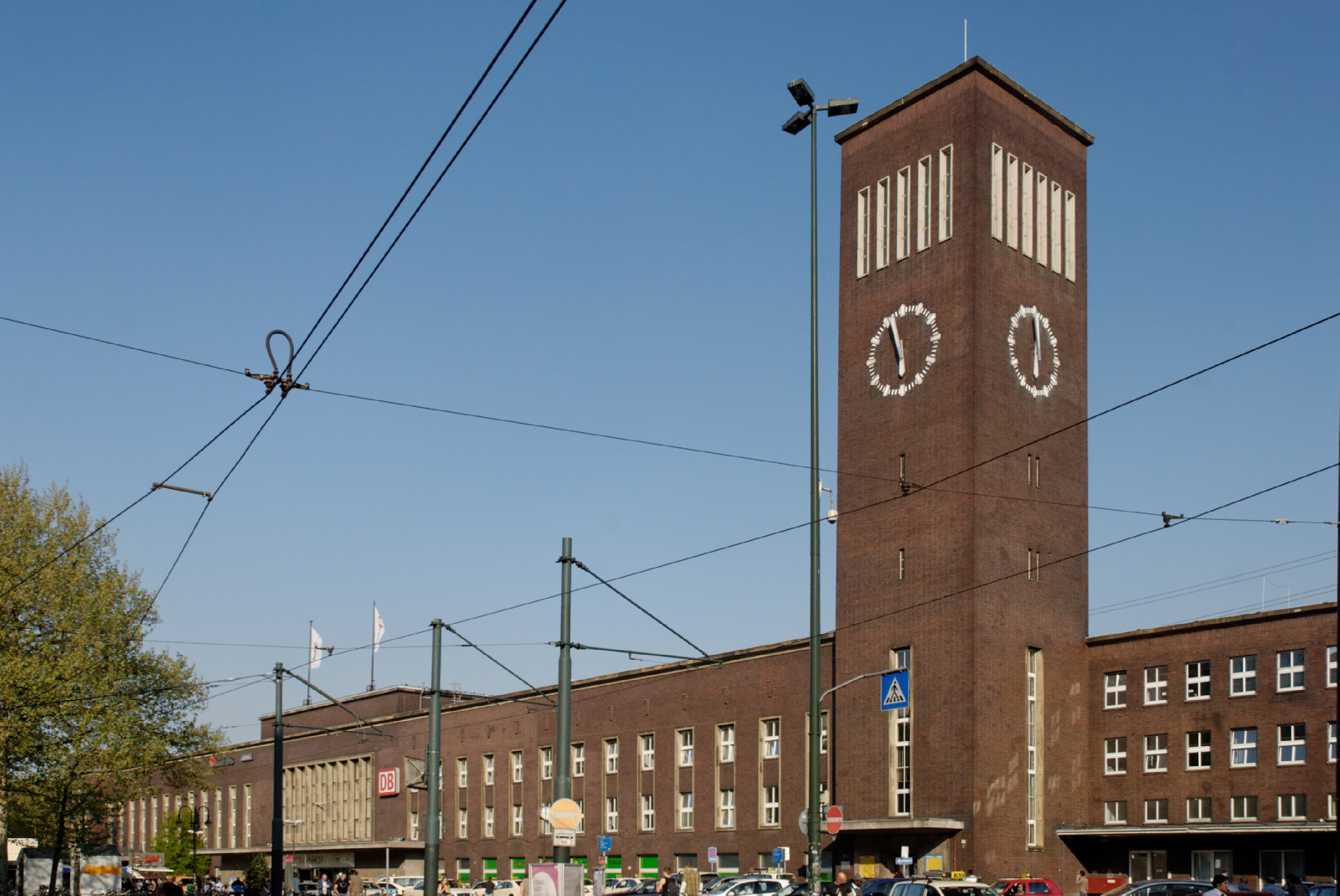 Hauptbahnhof, Konrad-Adenauer-Platz 14 in Düsseldorf-Stadtmitte, Germany This is a photograph of an architectural monument.